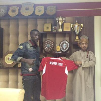 Blaise Kouassi After Signing a contract with Dhofar Club. 27 January 2015 Dhofar Club Photographer email id